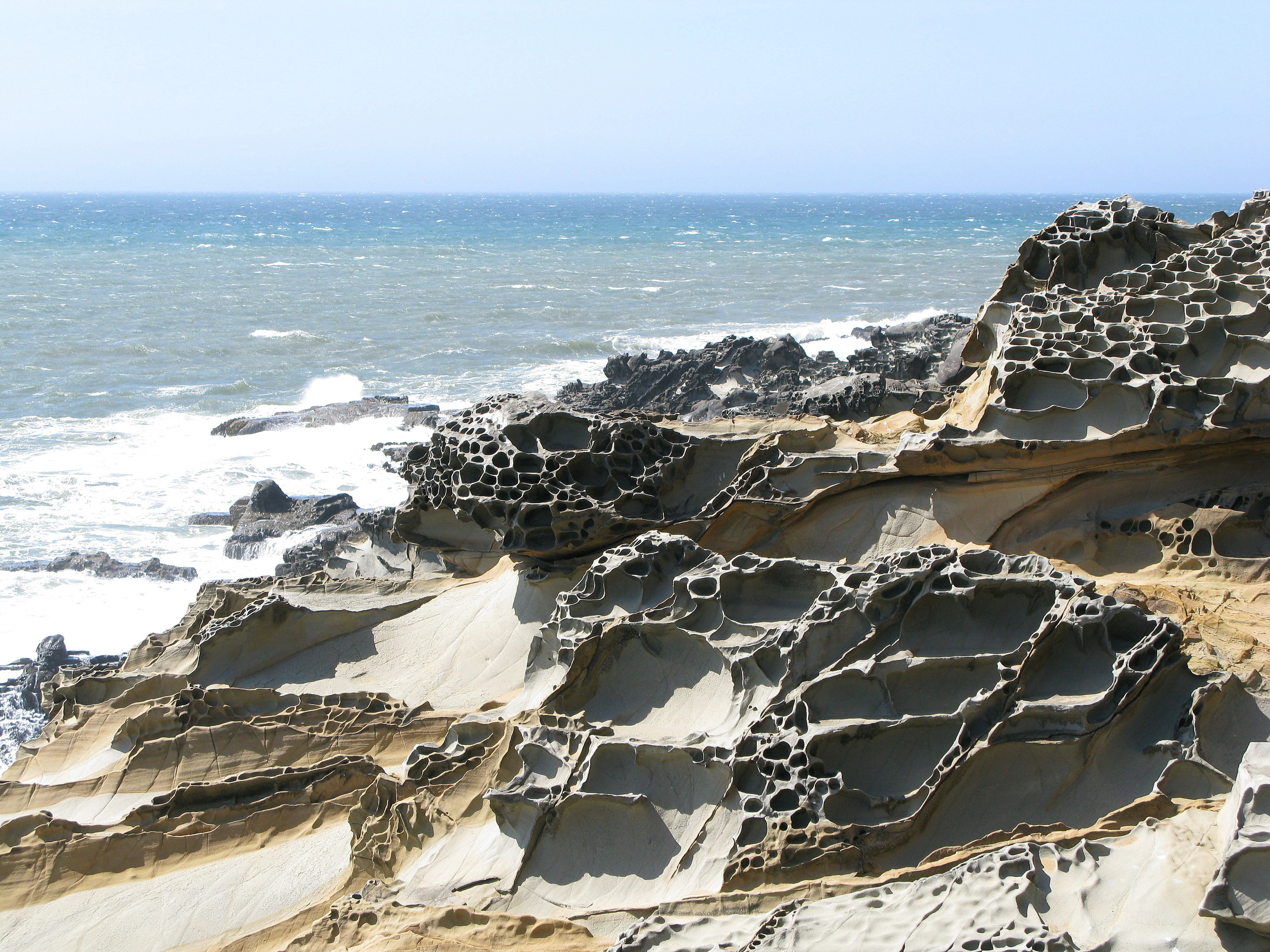 a 'Holey' place at Cape Sebastian